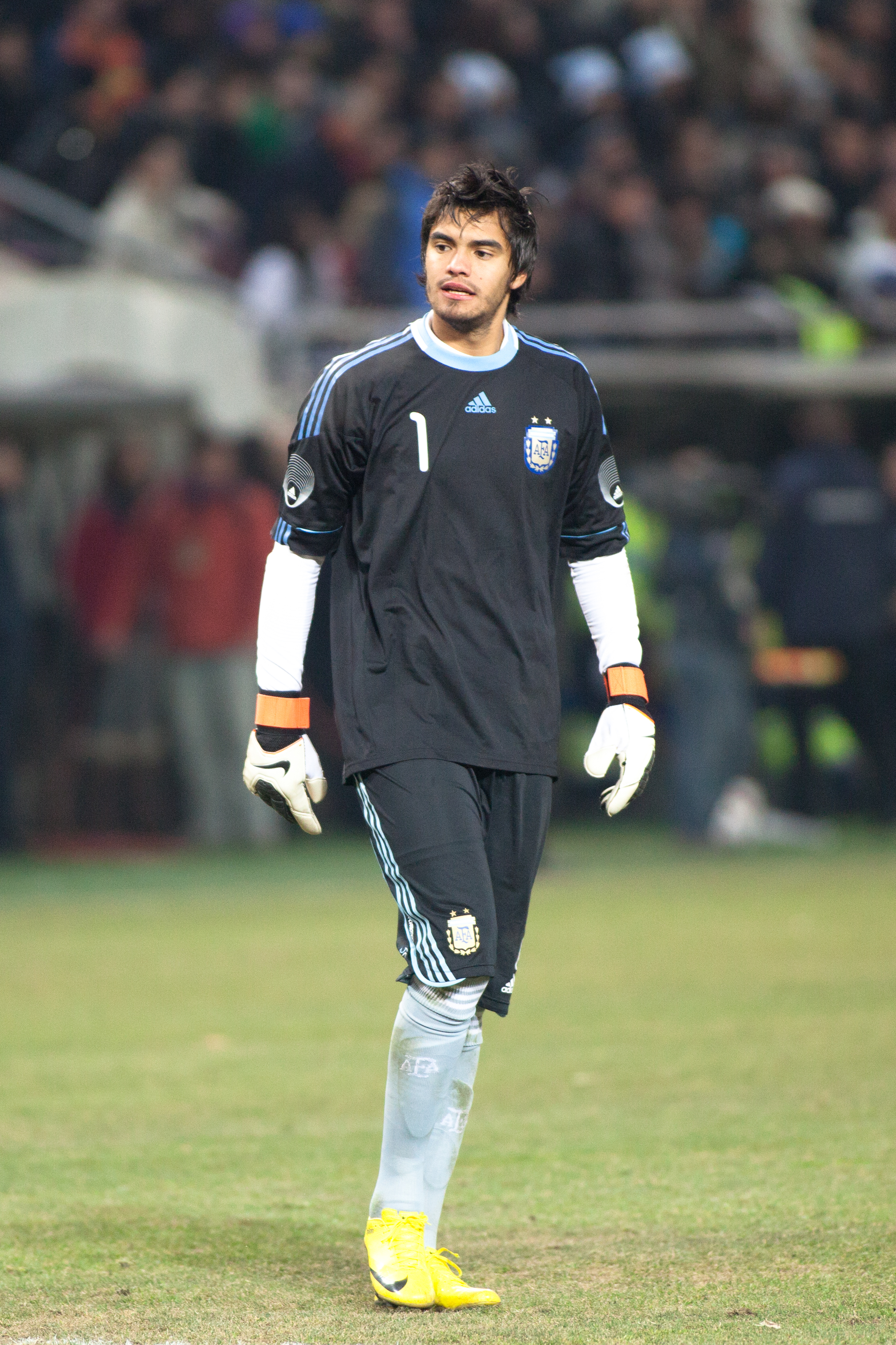 Sergio Romero during the friendly match Portugal-Argentina, in Geneva